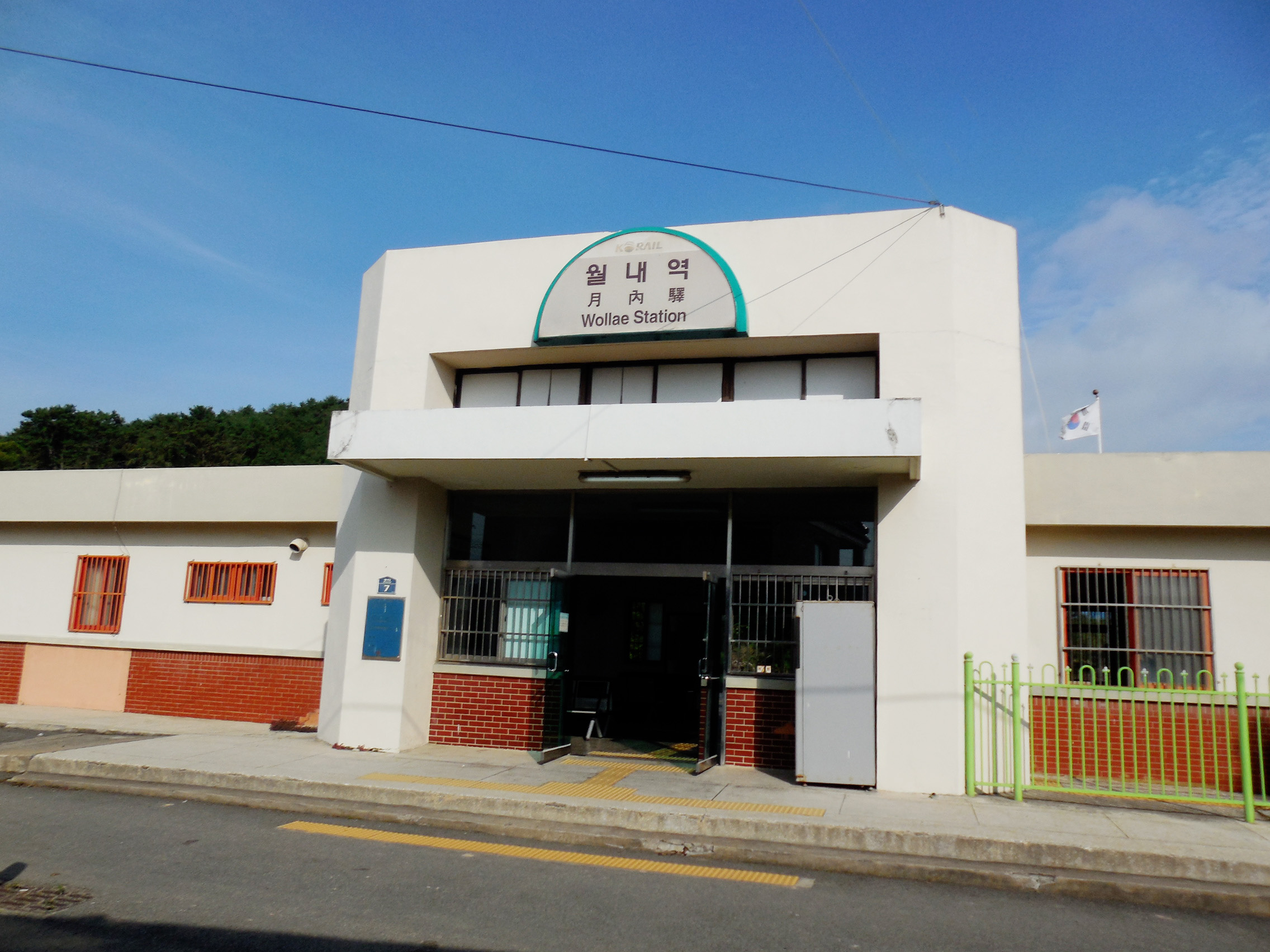 Korail Donghae Line Wollae Station.